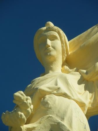 Close up of the Marbreries Generales Gourdon piece which forms the monument aux morts in front of the church at St Quentin en Tourmont in the Somme region of France.